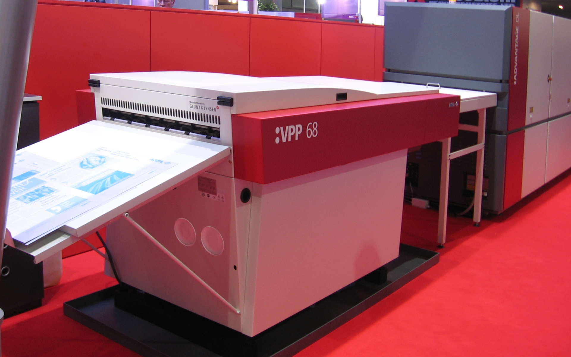 Agfa CtP, model Advantage DL + plate processor VPP68 on Ifra 2007 exhibition